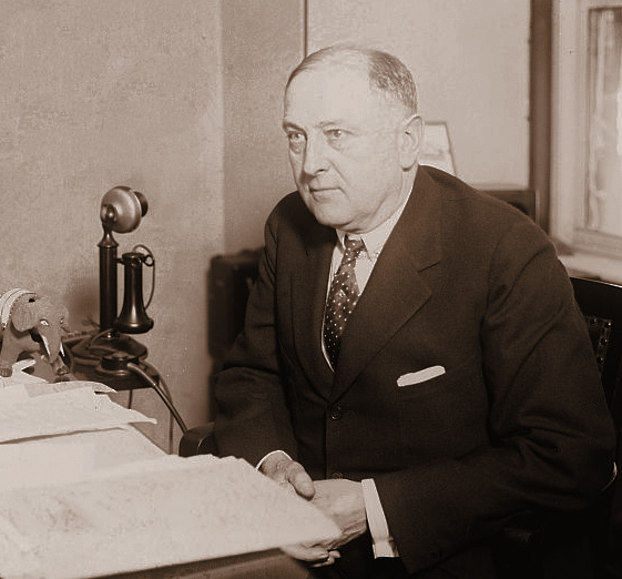 US Attorney General Harry M. Daugherty (1860-1941)